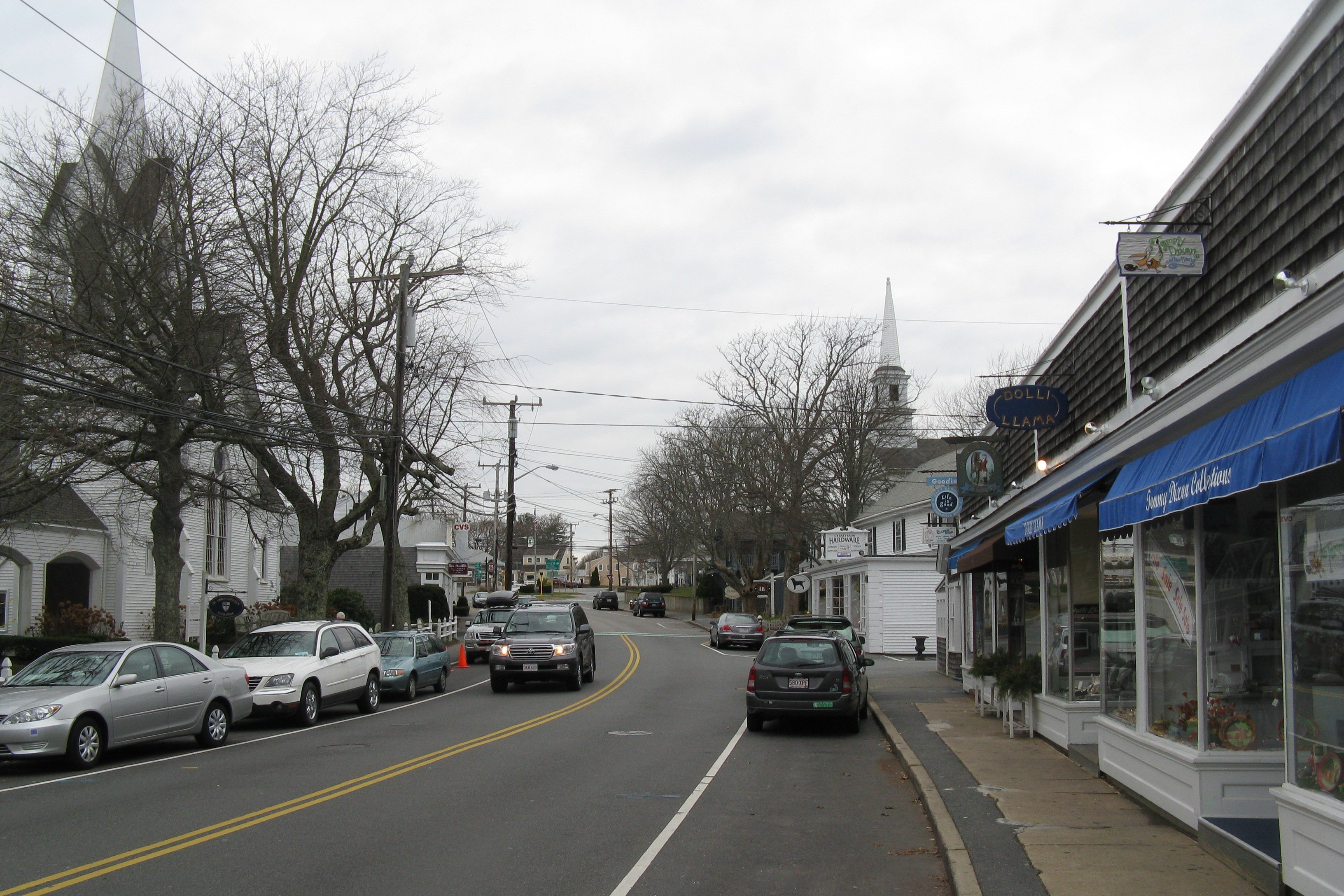 Main Street looking west, Chatham Massachusetts